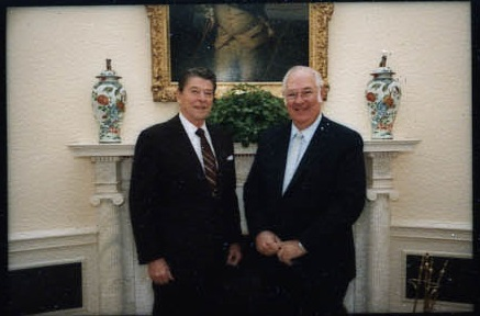 Shirley Abbott, right with Ronald Reagan in Oval Office